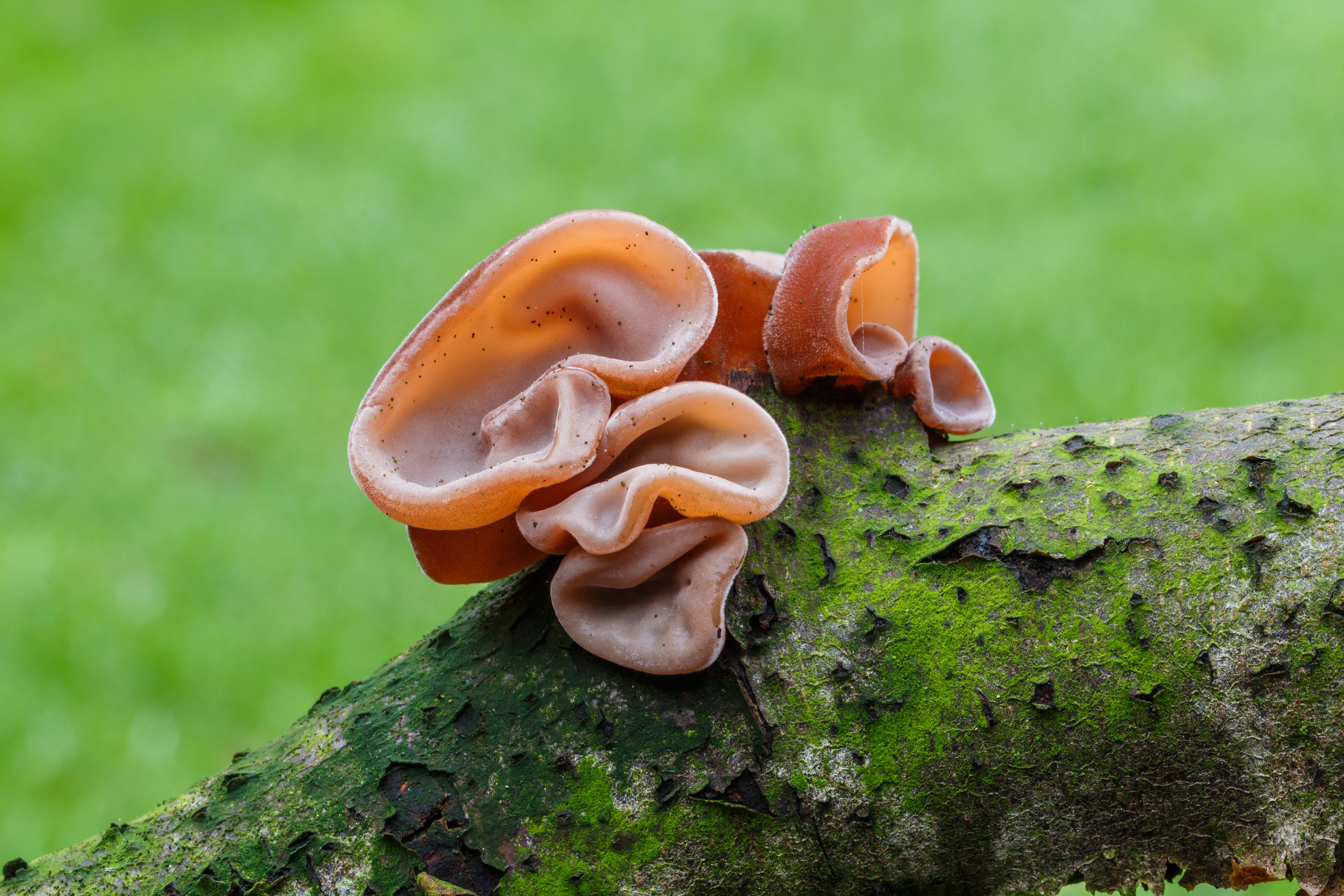 Auricularia auricula-judae (Family Auriculariaceae) on dead branch.